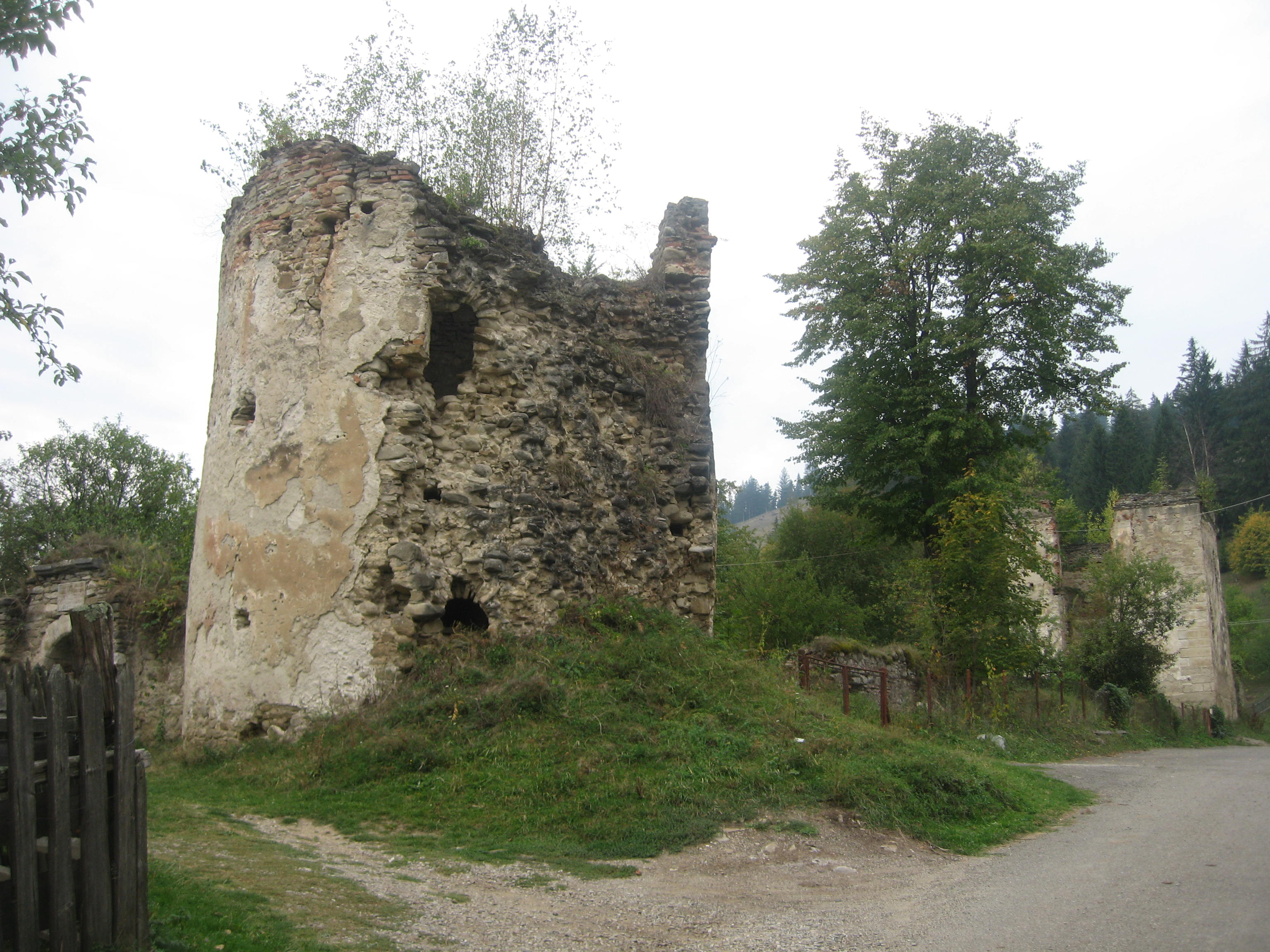 Palatul Cnejilor from Ceahlău, Neamţ County, Romania